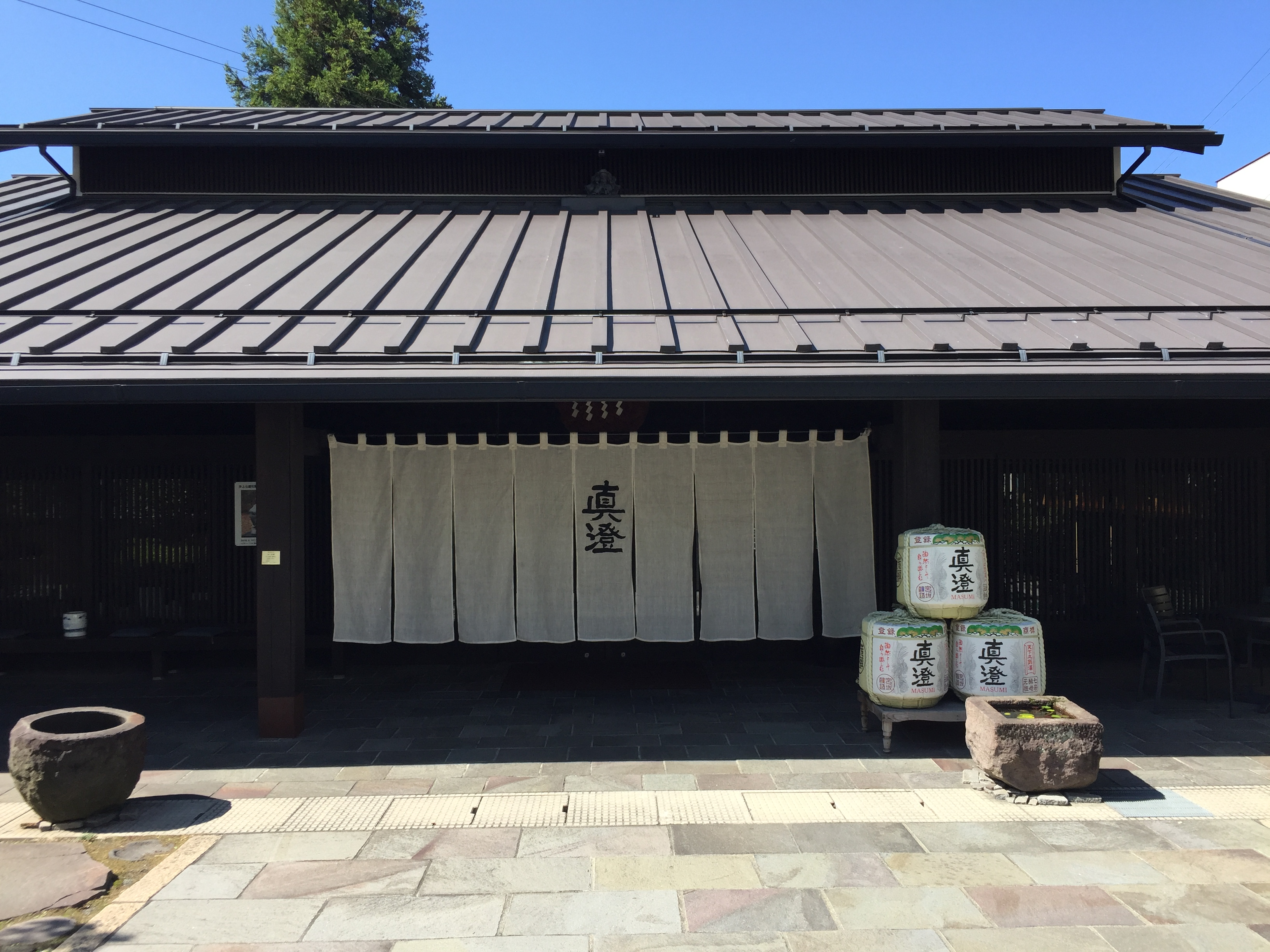 Miyasaka Brewery Cella Masumi entrance